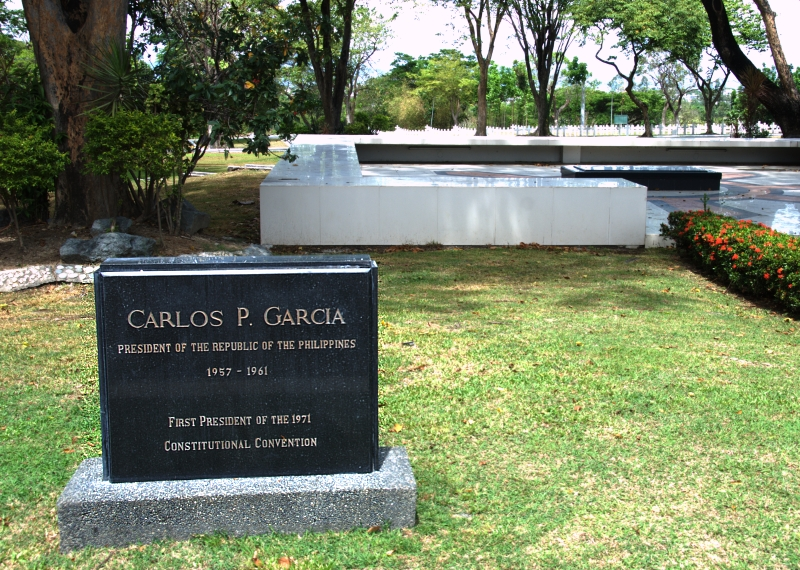 Grave of Philippine President Carlos P. Garcia and his wife, First Lady Leonila Garcia at the Libingan ng mga Bayani